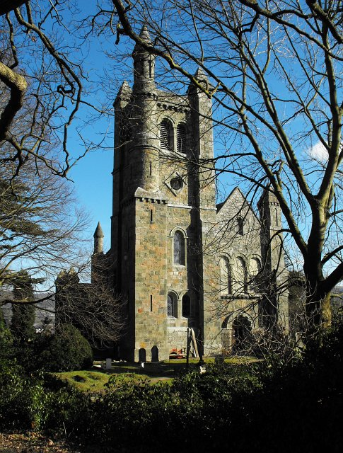 Christ Church, Welshpool. Seen from the edge of the cemetery 1173815